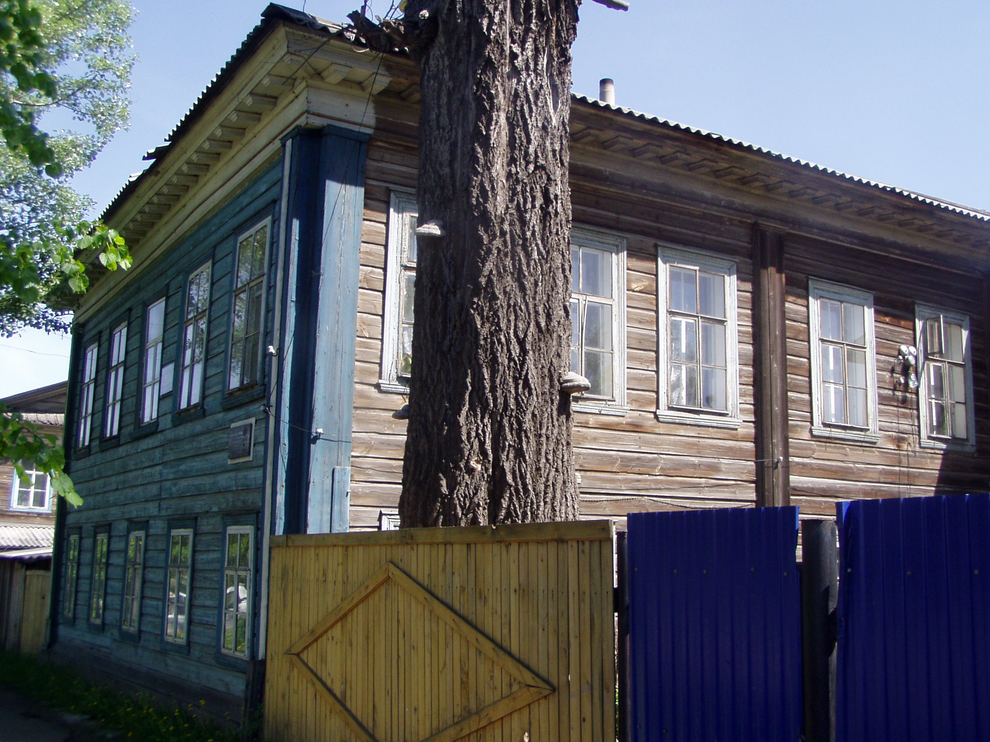 Vyacheslav Molotov's born house in Sovetsk, Kirov oblast, Russia